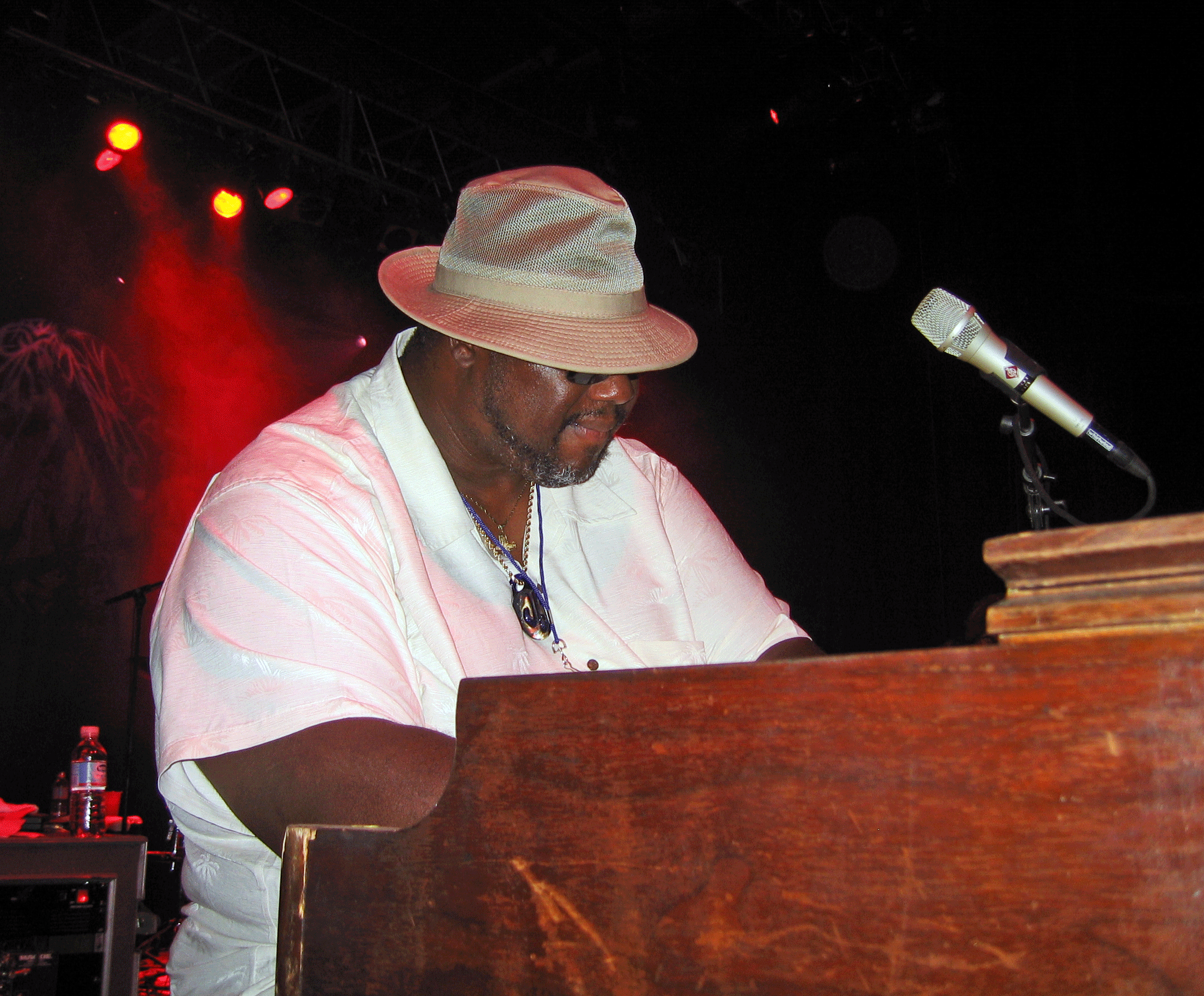 Melvin Seals